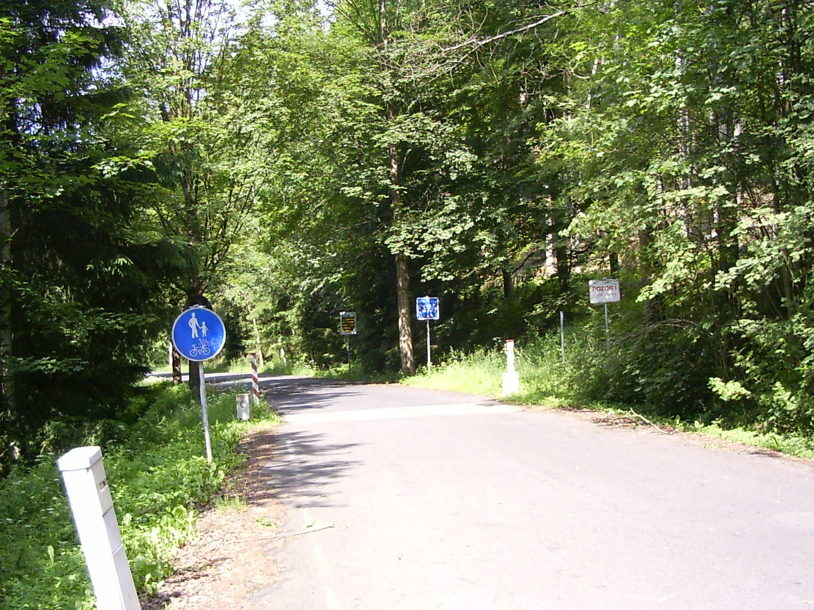 Border point Doubrava (Aš)-Bad Elster. Boundary stone XXIII/1 is located on the left side of the road.